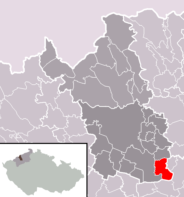 Location of Bělušice municipality within Most District and administrative area of Most as a Municipality with Extended Competence.